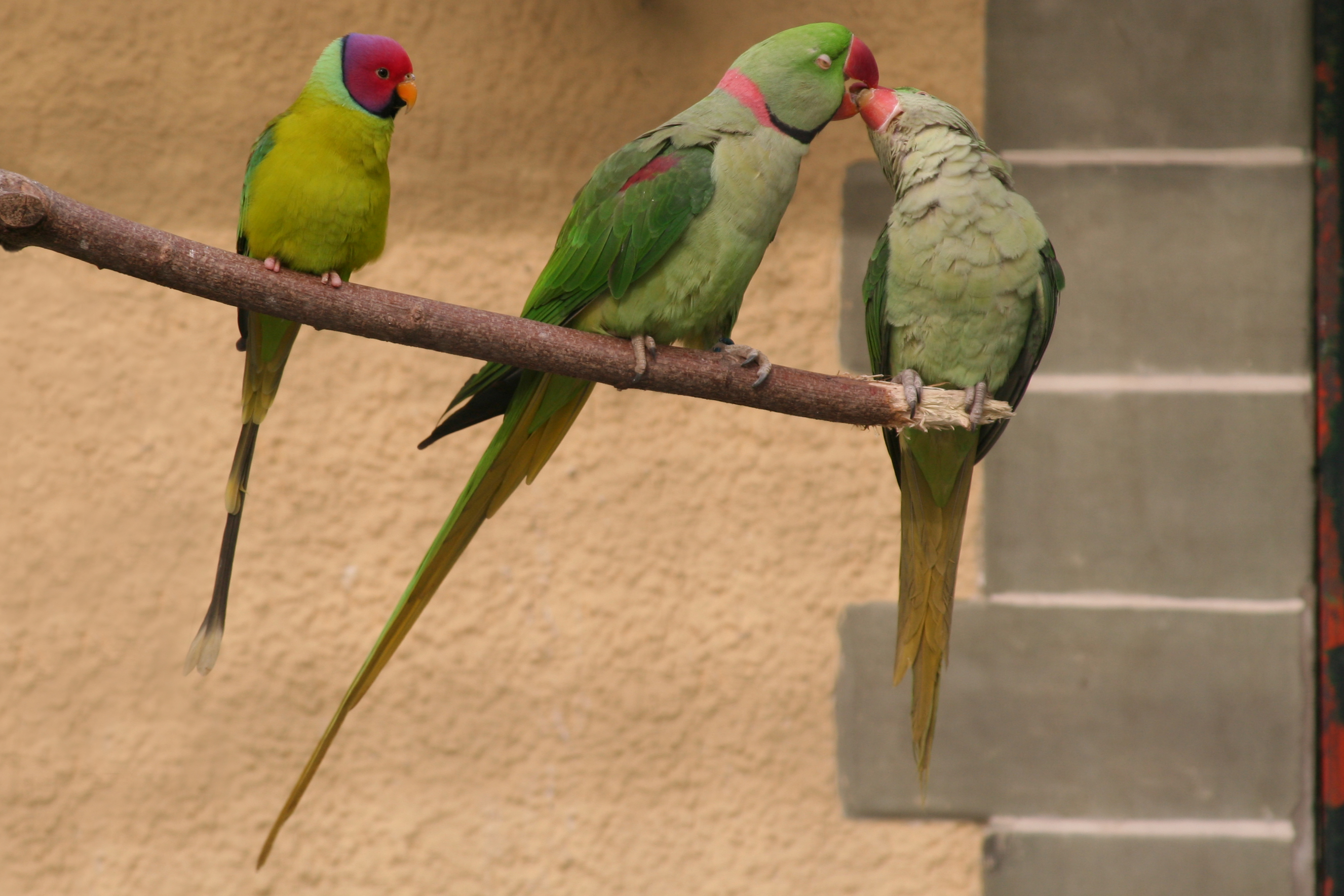 One Plum-headed Parakeet (Psittacula cyanocephala) on the left and a pair of Alexandrine Parakeets (Psittacula eupatria) on the right.